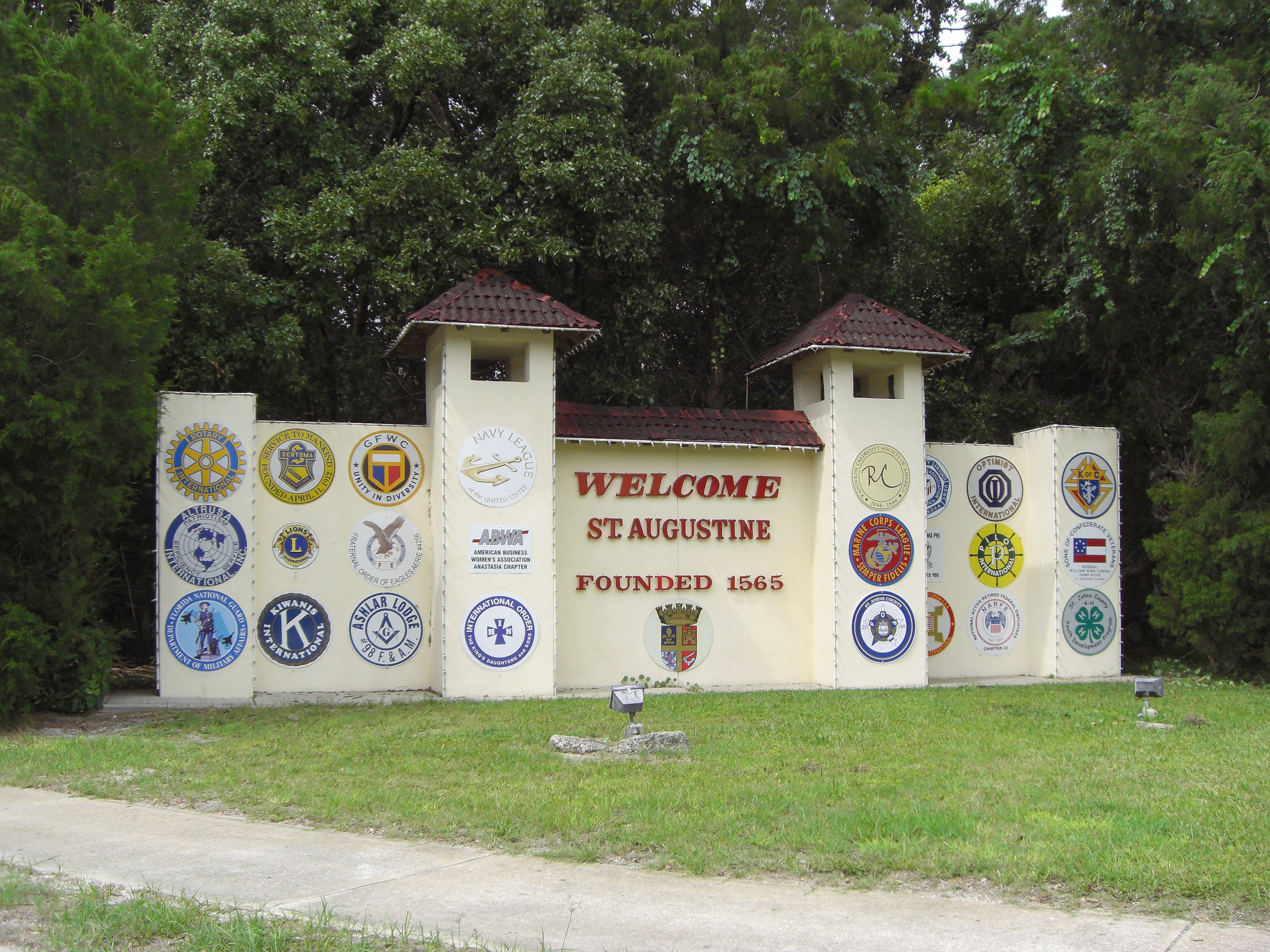 St. Augustine Sign, Augustine, Florida, USA